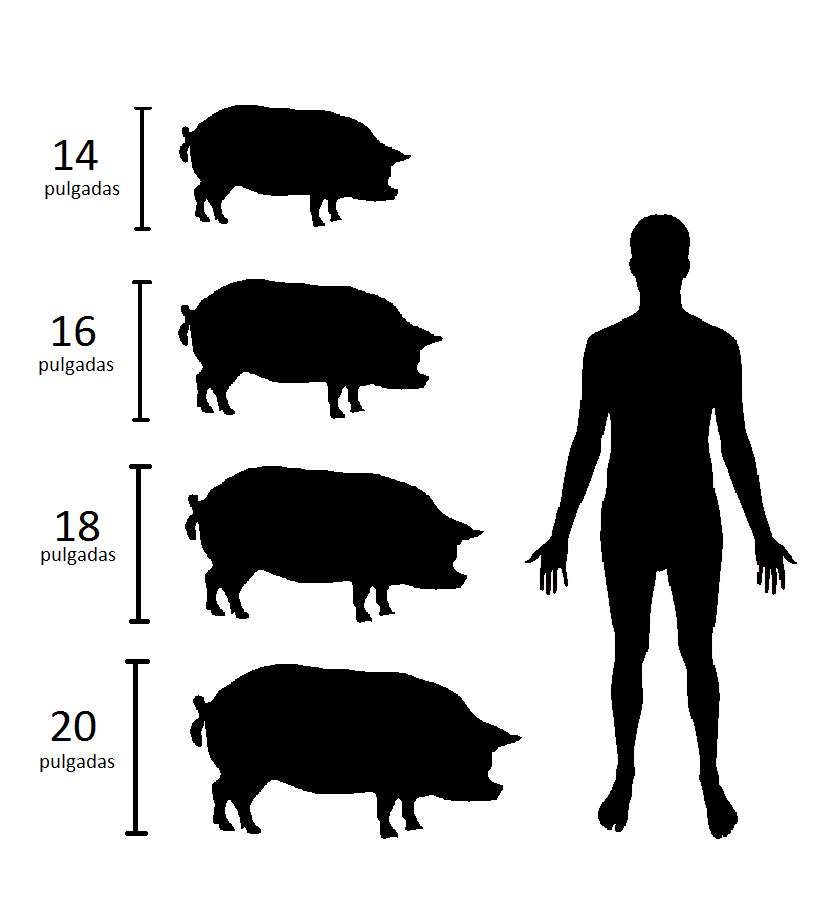 Mini Ping category by AMPA